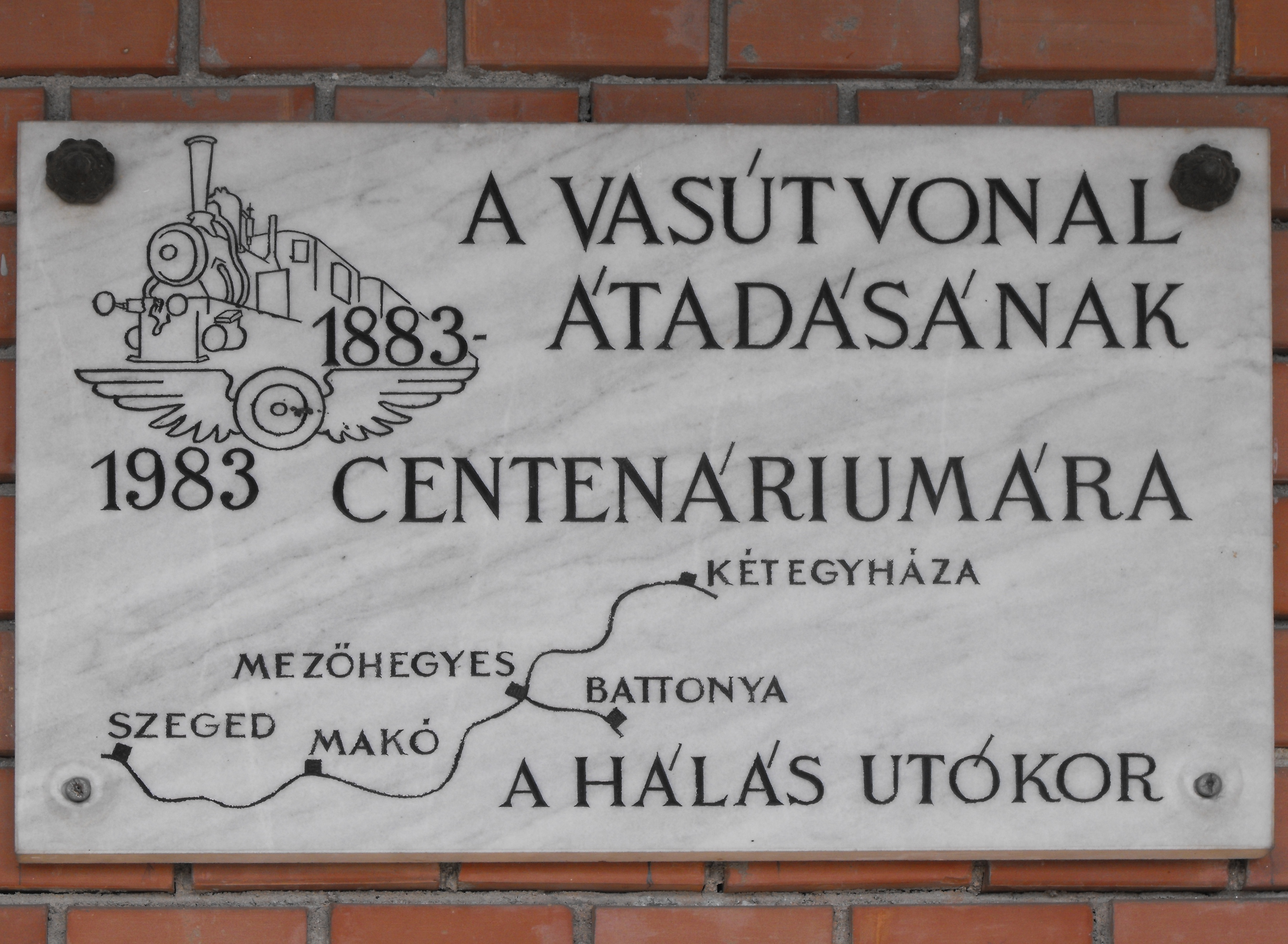 Memorial tablet in Makó, Hungary, commemorating to the centenary of the establishment of the Békéscsaba–Kétegyháza–Mezőhegyes–Újszeged railway line.